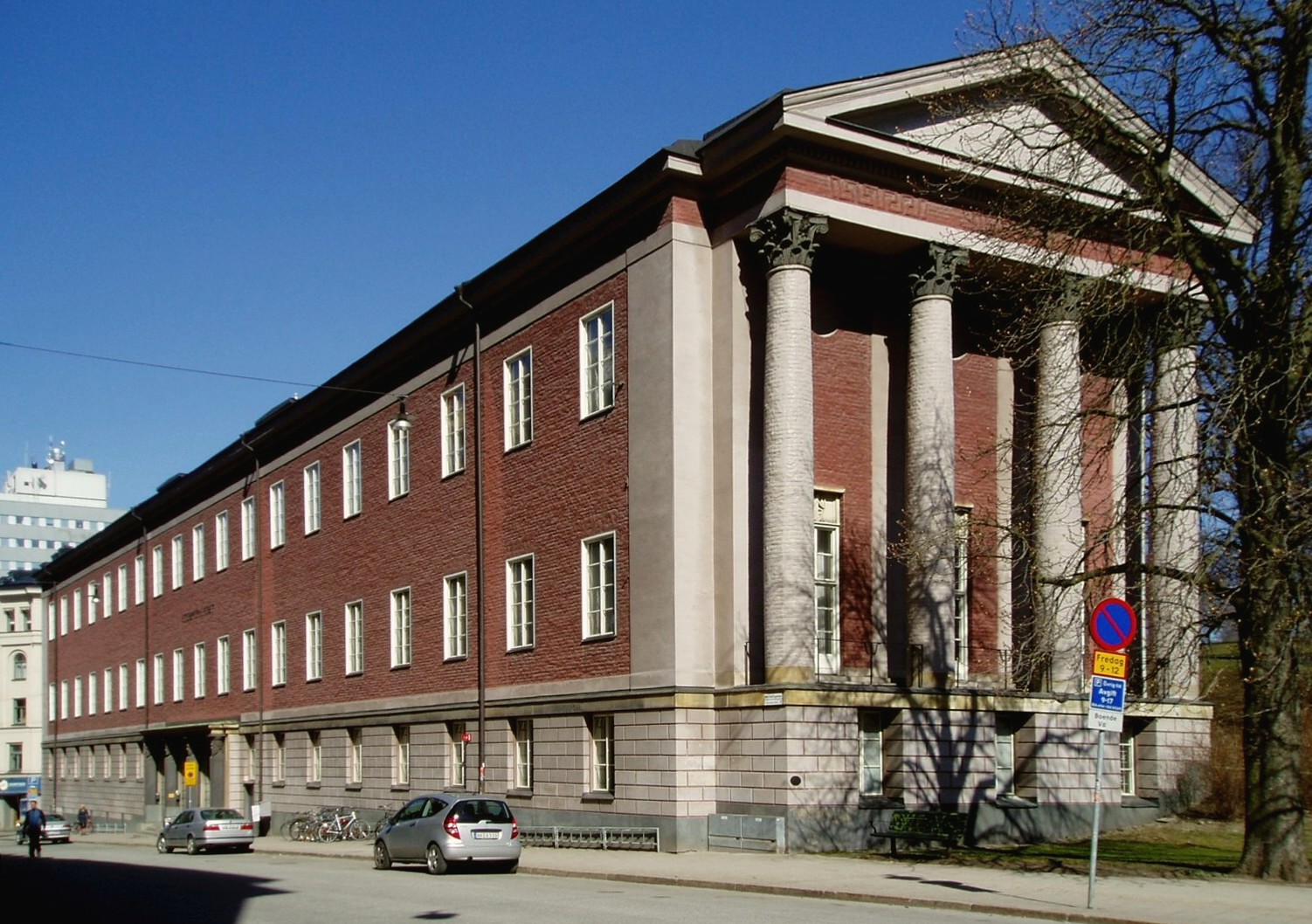 Studentpalatset, Stockholm